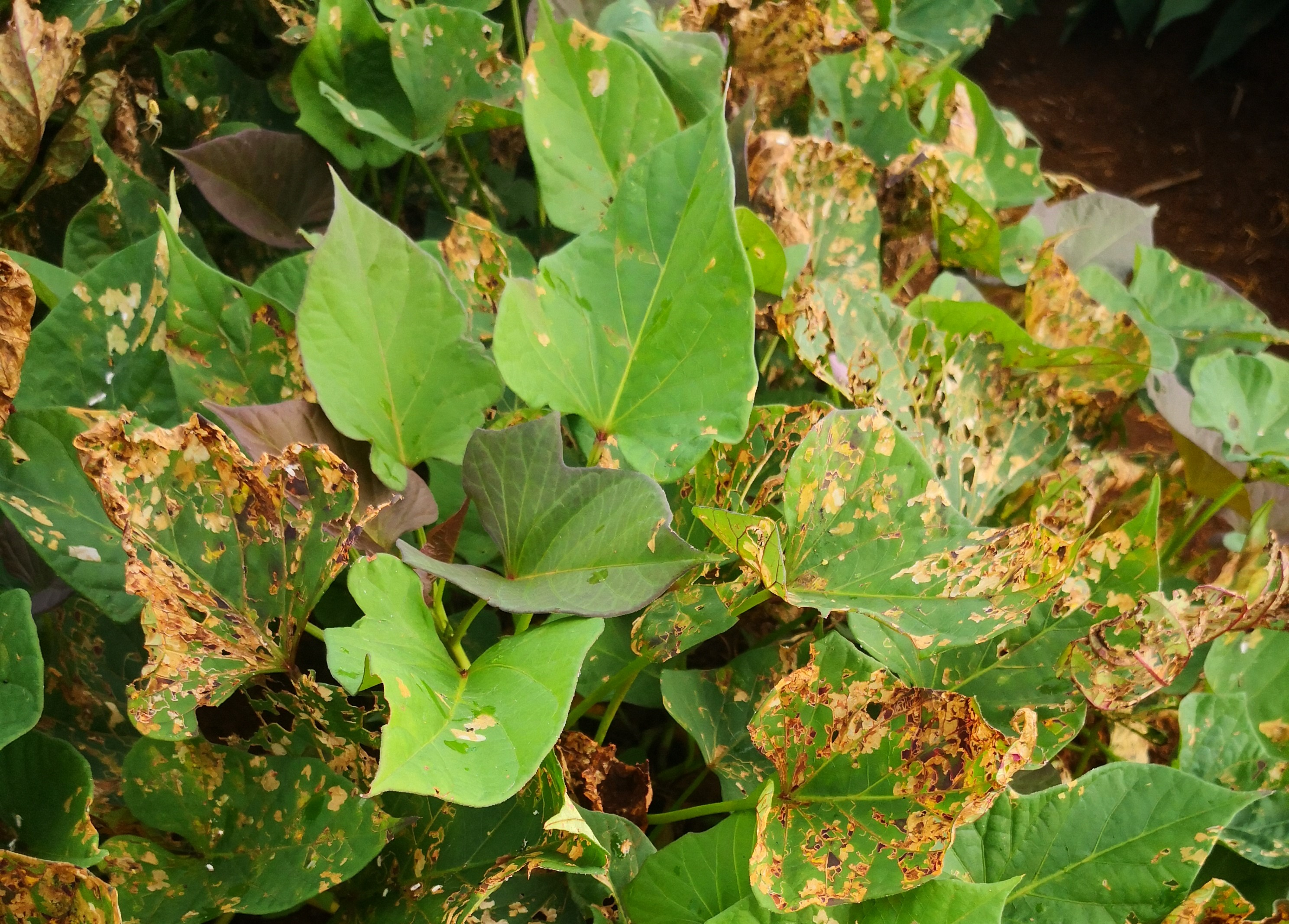 Sweet potato plant showing damage from leaf miners on some leaves.